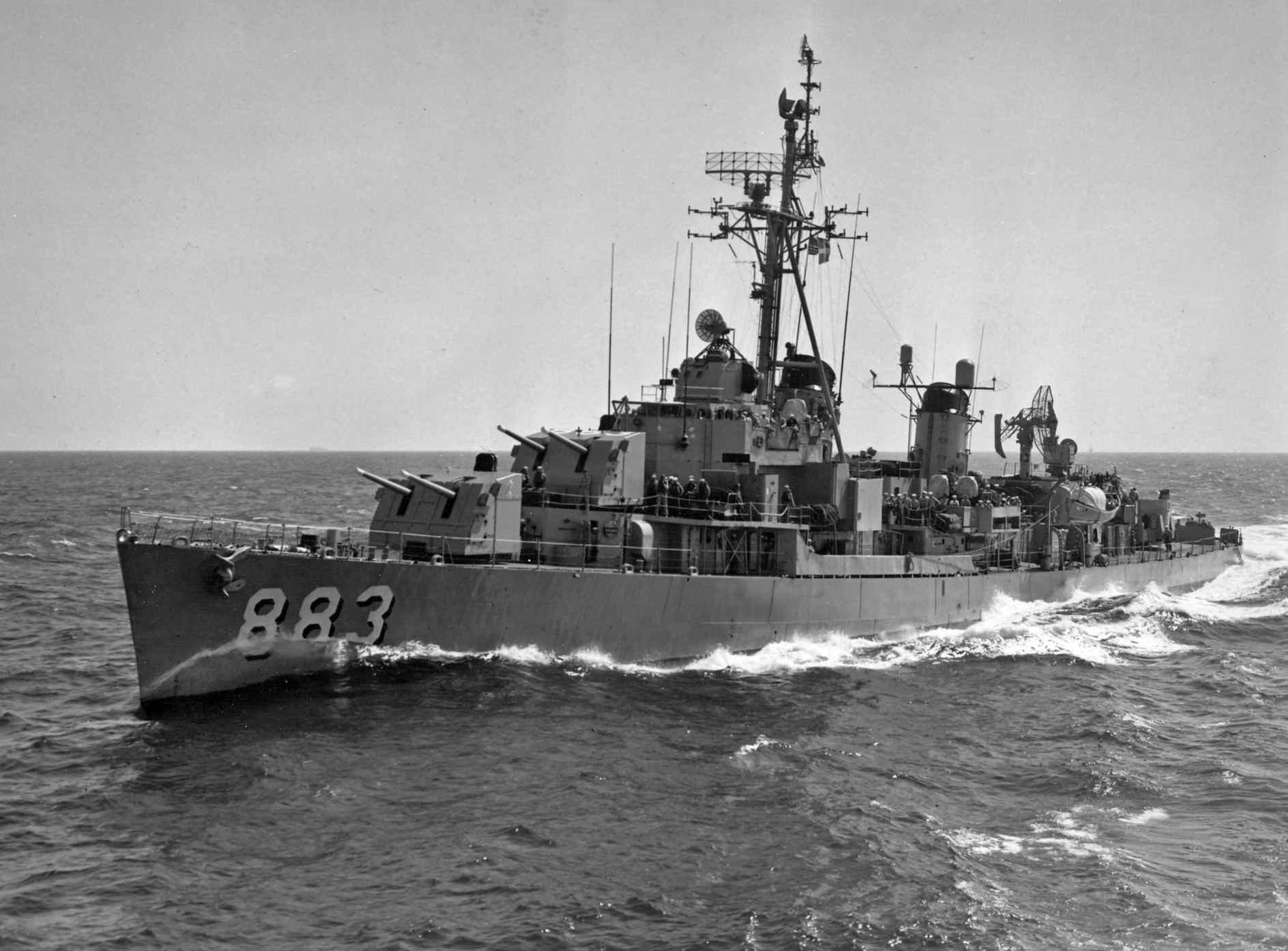 The U.S. Navy radar picket destroyer USS Newman K. Perry (DDR-883) pictured at sea escorting the carrier USS Saratoga (CVA-60), 1957-1959.